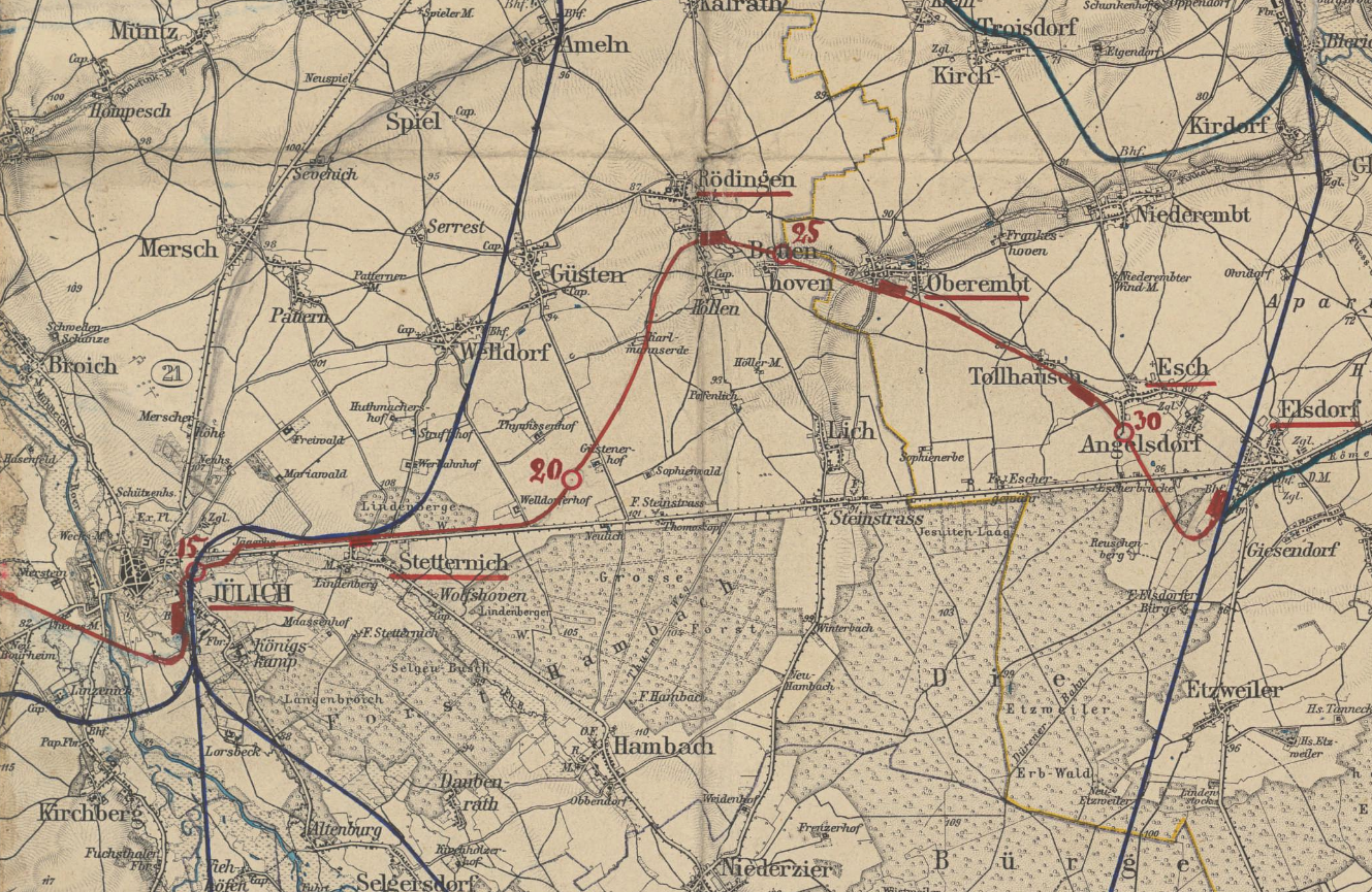 Overview of the planned railway line Jülich – Elsdorf of the Jülicher Kreisbahn